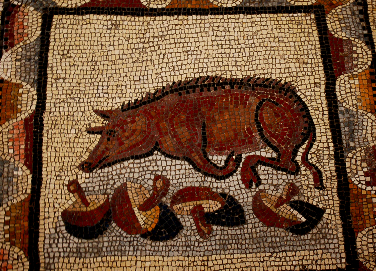 A truffle pig with his spoils. This beautiful mosaic tile scene of a truffle pig with his spoils in the Museum of Animals in the Vatican Museum, reminded me of the possibility to forage for mushrooms in the woods around Cortona...(Museum of animals in the Vatican Museum, Rome)